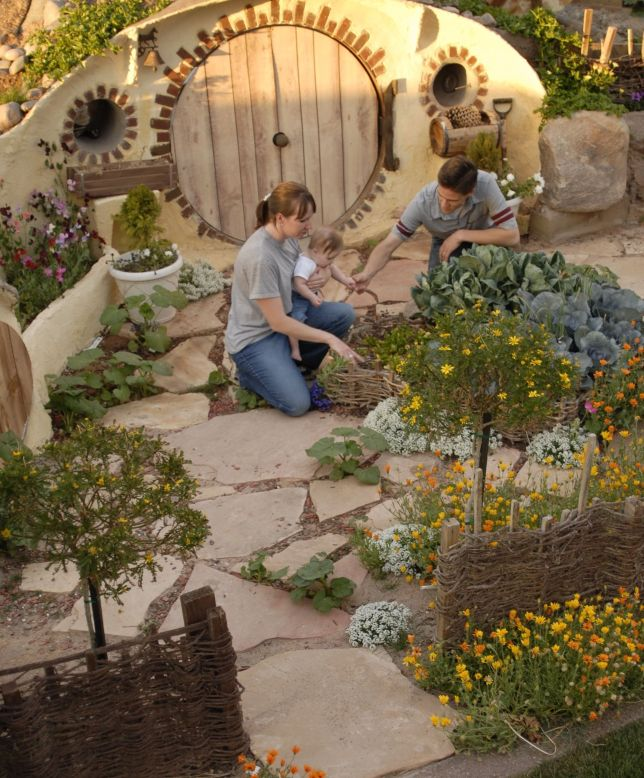 A backyard hobbit hole, built to "hobbit scale" as a playhouse for the kids.